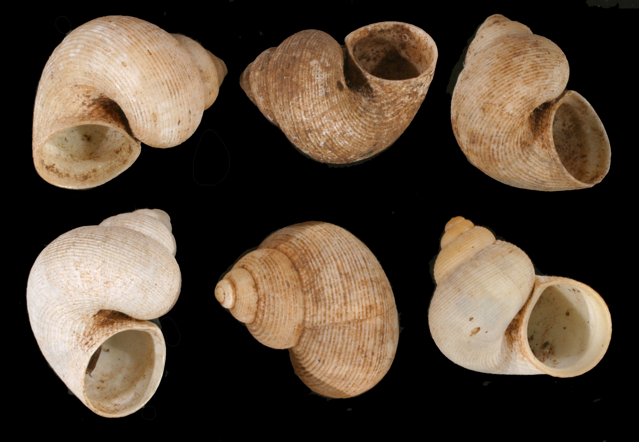 Pomatis rivularis (Eichwald, 1829), Pomatiidae, Littorinoidea, Sorbeoconcha, Gastropoda, Demre, Vilayet Antalya, Turkey